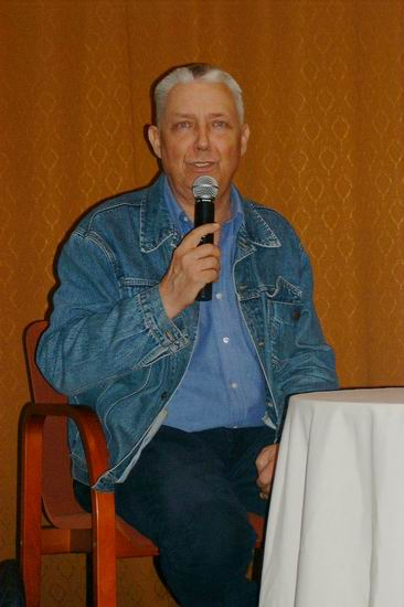 This image has been copied from the source with the permision of webmaster (and with the consent of the director of the service). The permission was granted to Stan Zurek (Zureks) via email from Mirosław Domański Wojciech Młynarski